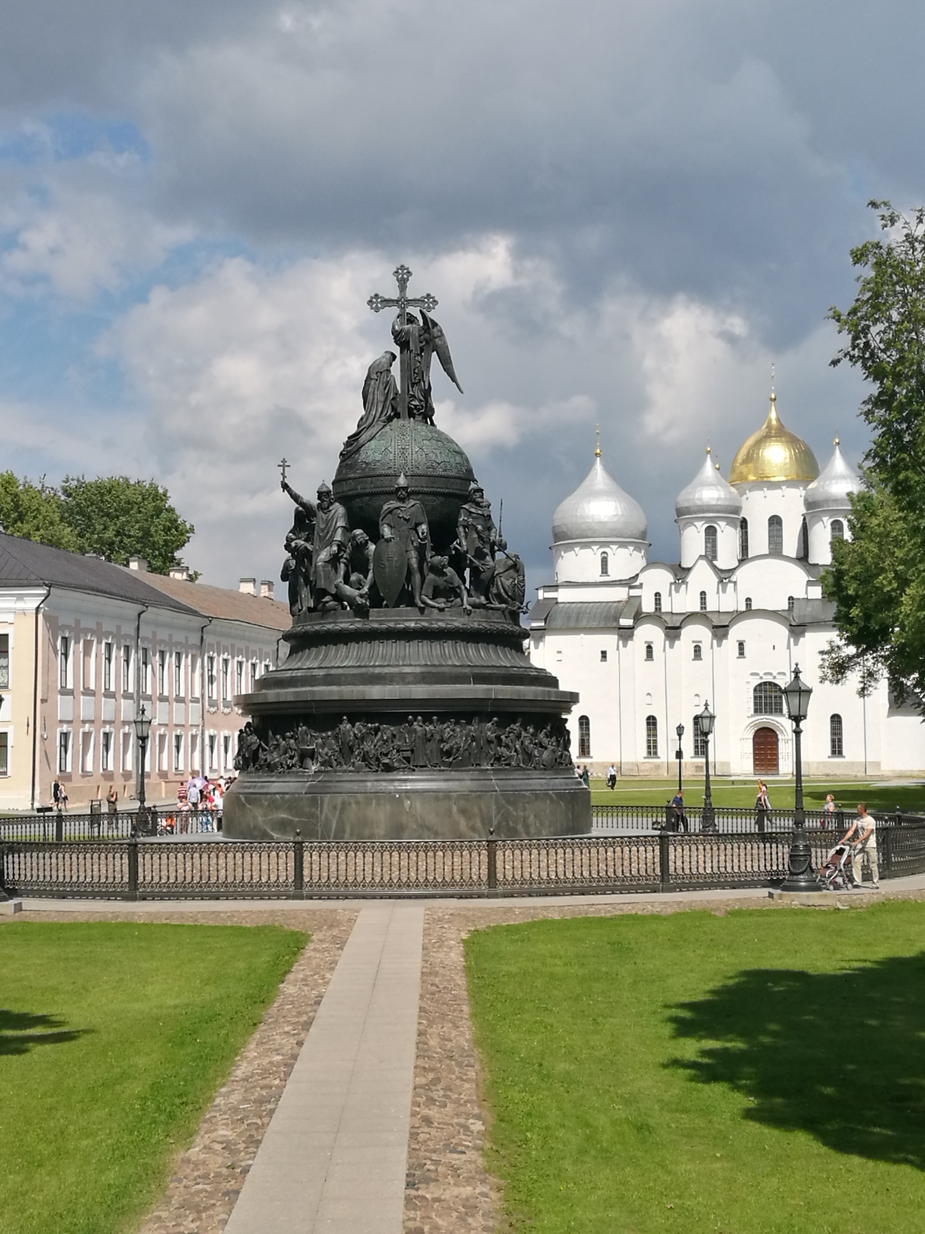 Inside the Novgorod kremlin